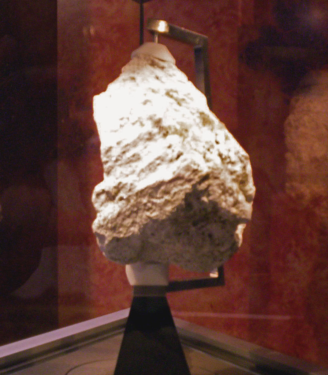 Lunar Ferroan Anorthosite #60025 (Plagioclase Feldspar). Collected by Apollo 16 from the Lunar Highlands near Descartes Crater. This sample is currently on display at the National Museum of Natural History in Washington, D.C.. Plaque states: At 4.5 billion years old, this anorthosite is approximately the same age as the Moon itself. Made mostly of plagioclase feldspar, it is thought to be a sample of the Moon's early feldspar crust.